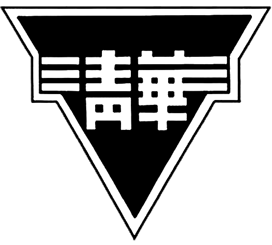 Another Old Logo of Tsinghua, for wearing, before 1949